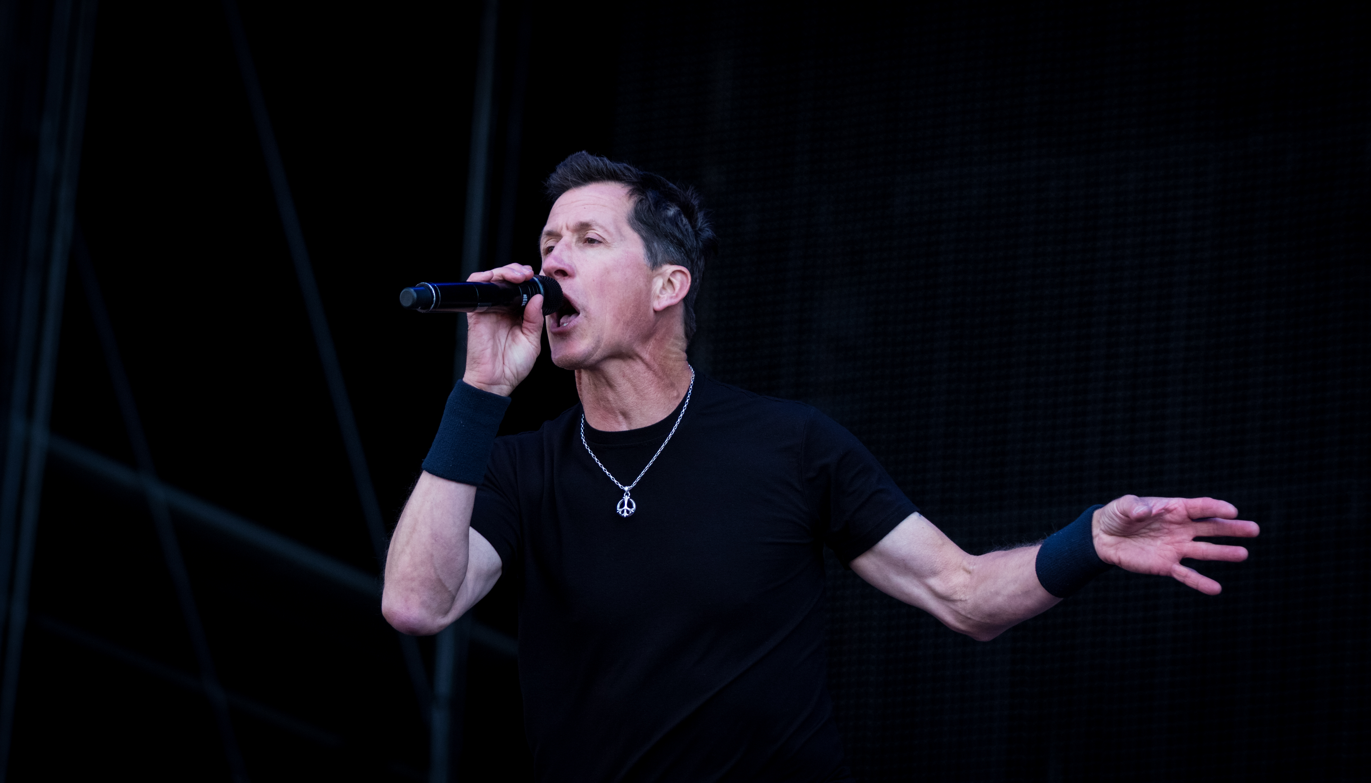 Metal Church - Wacken Open Air 2016